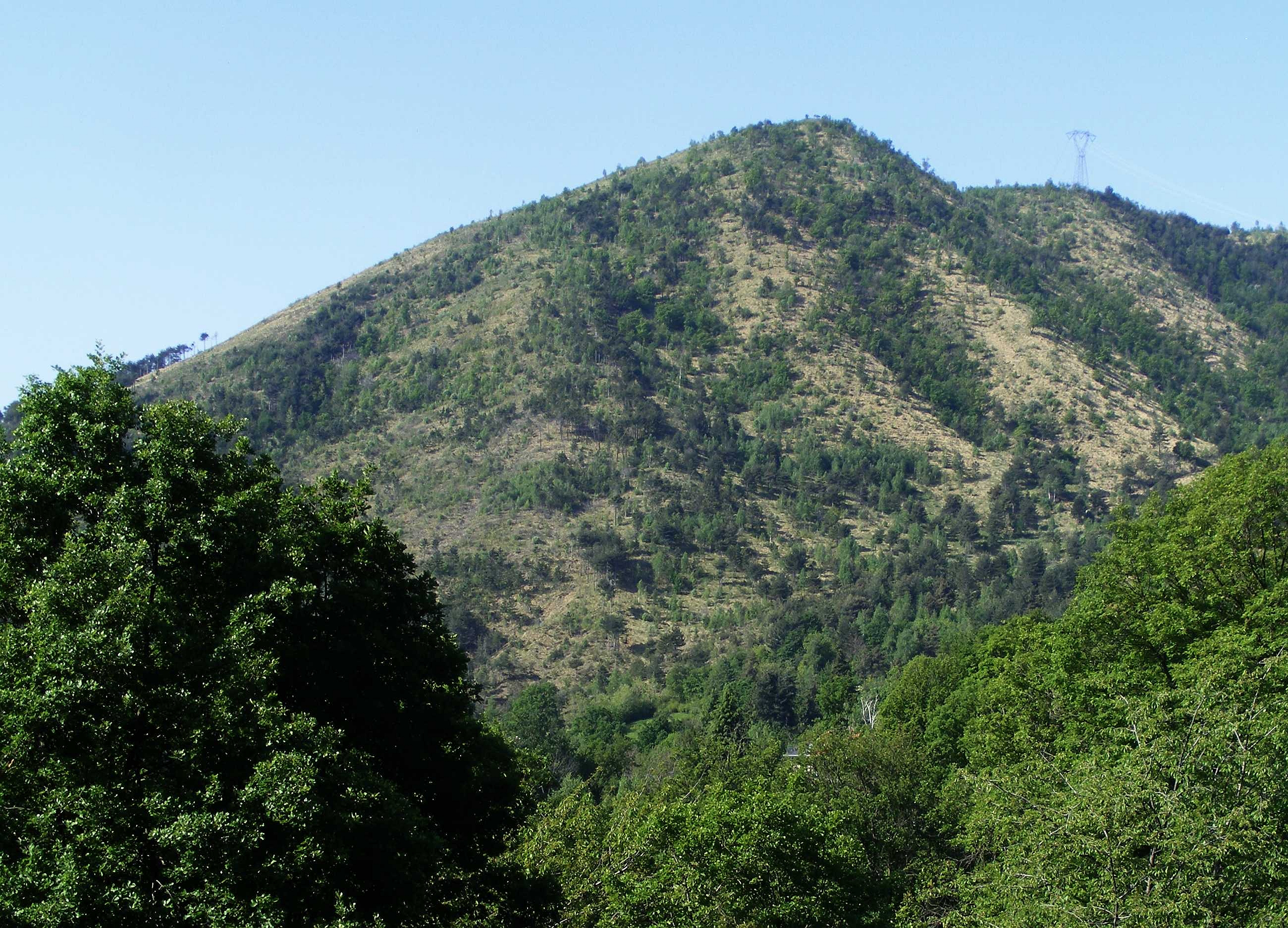 Mount Baron from Givoletto (TO, Italy)